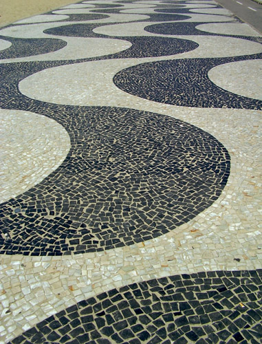 Mosaic on Copacabana pavement in Rio de Janeiro. Photo by Anatoly Terentiev, 11 January 2006.